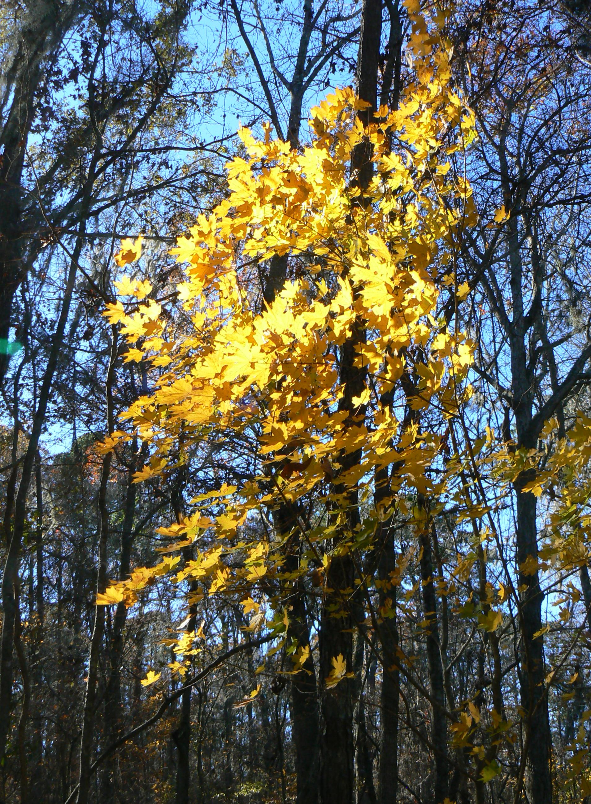 Acer floridanum (Florida Maple) at Three Rivers State Recreation Area, Jackson Co., Florida.